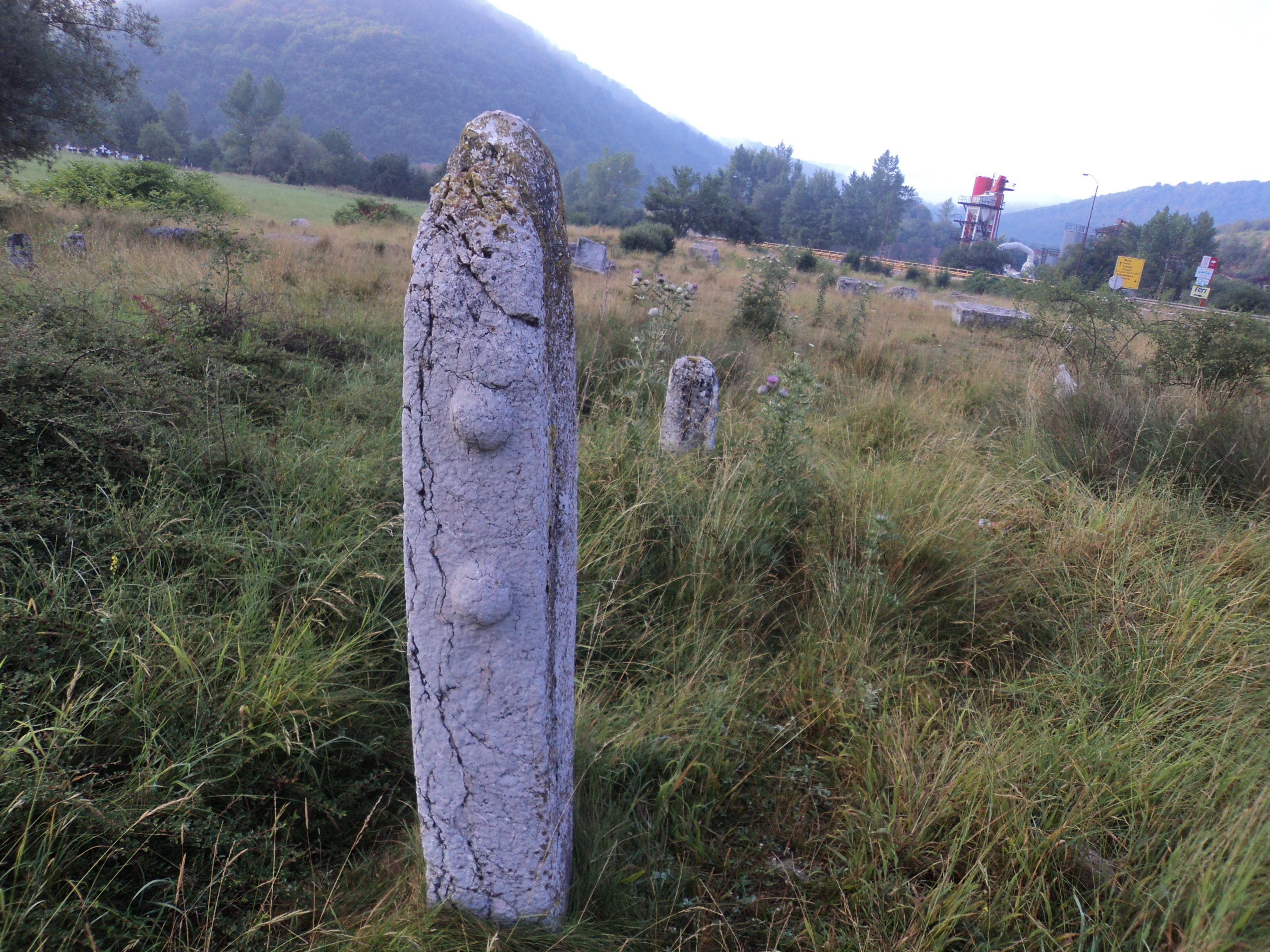 This cultural heritage site is made up from aproximatly 21 stećak and 12 nišan transported to their current location due to nearby quarry, in Krupac, extending its operation to their former location.Two stećak monuments and one nišan monument are separated from the main find and are situated in the nearby settlement of Vojkovići. This image was uploaded as part of Trace of Soul 2015.